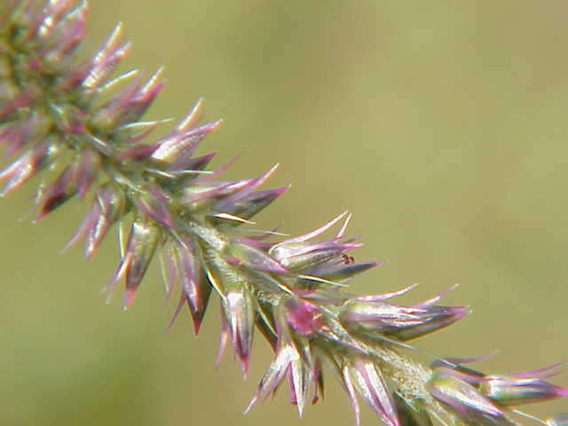 Species: Achyranthes aspera Family: Amaranthaceae Image No. 1